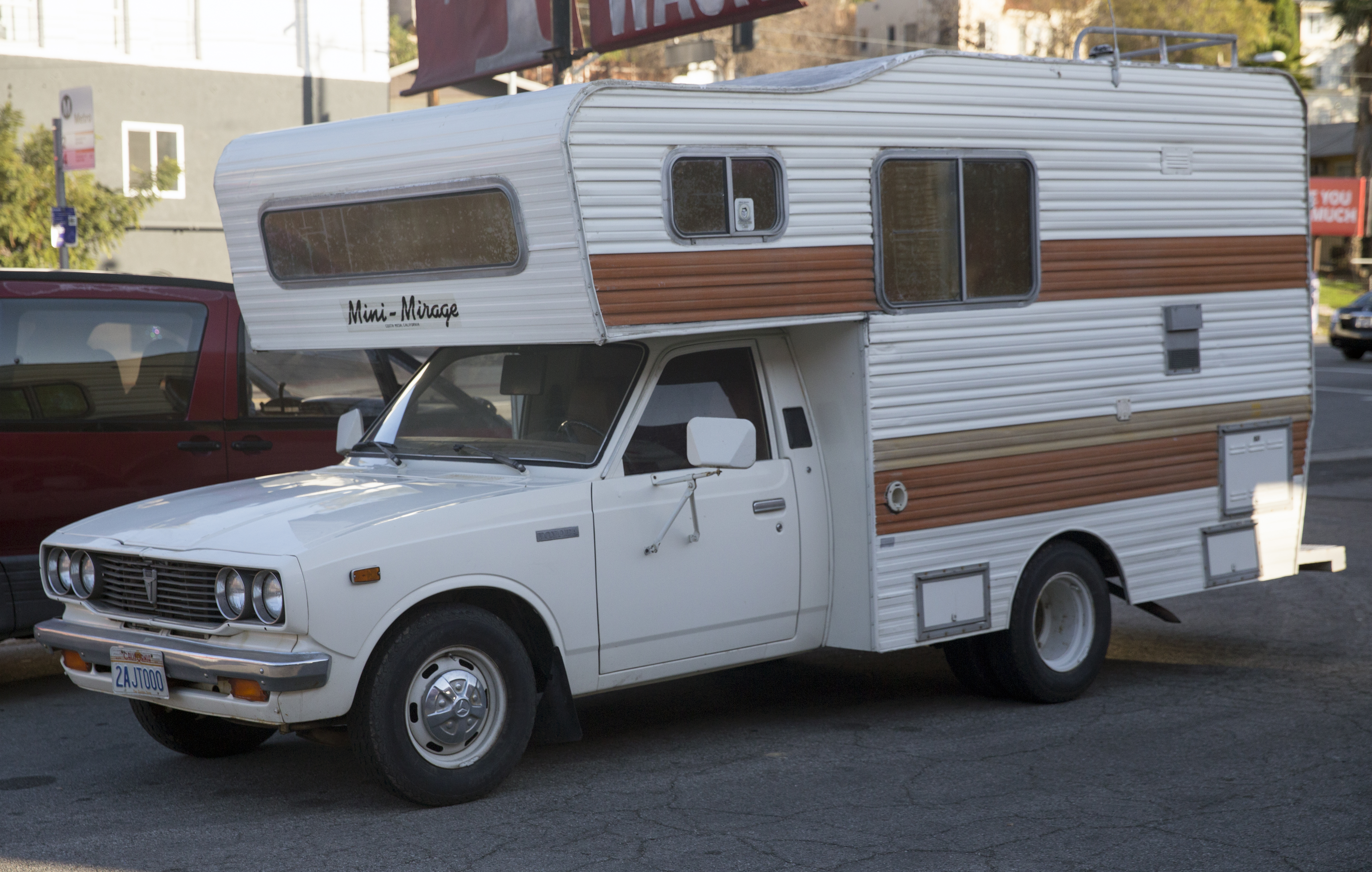 A 1978 Toyota HiLux with a Mini Mirage camper in Los Angeles, CA.